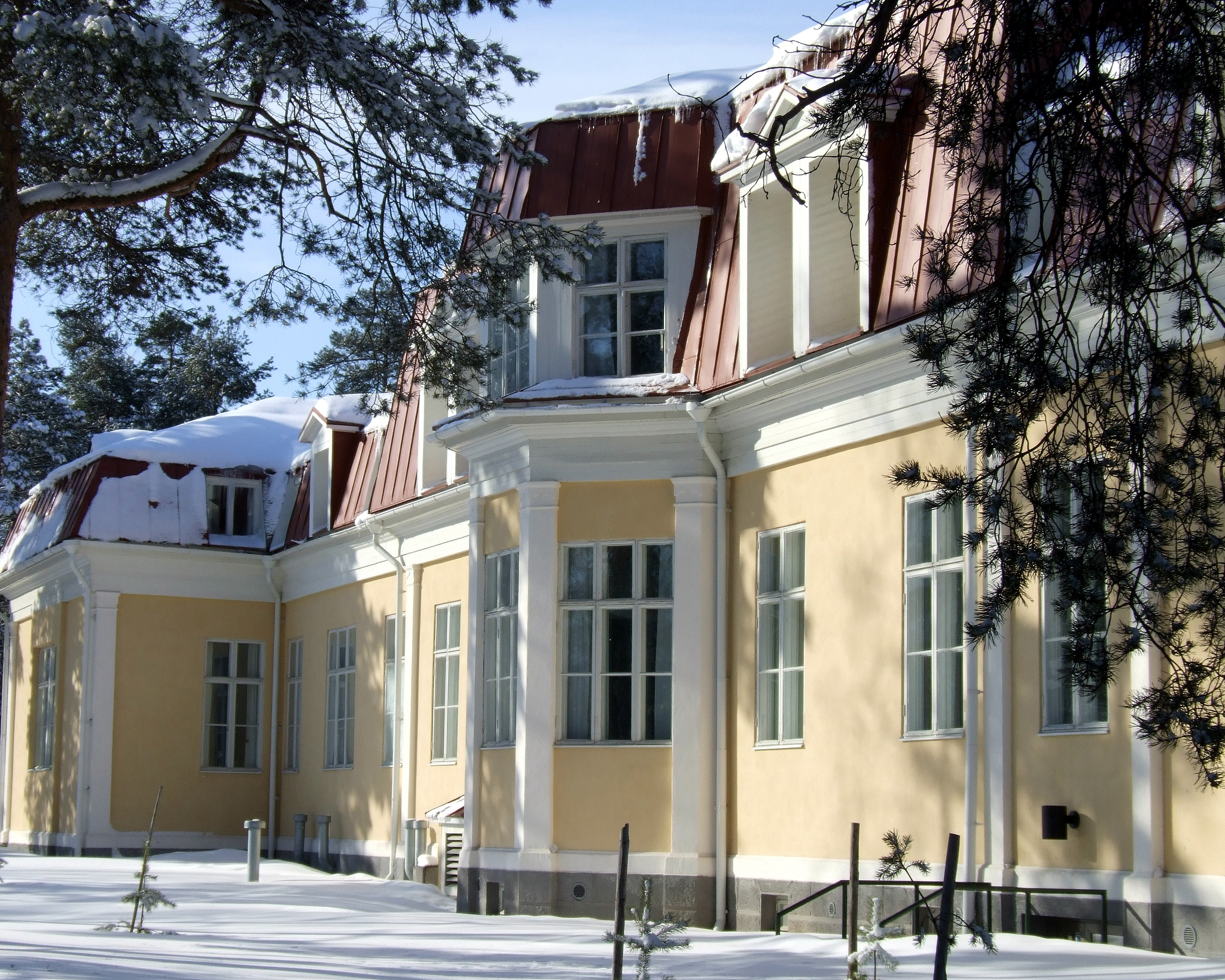 A former maternity hospital building in the Tuiranpuisto park in Oulu, Finland. Building was designed by architect Otto F. Holm in 1922, but it was not completed until 1926.